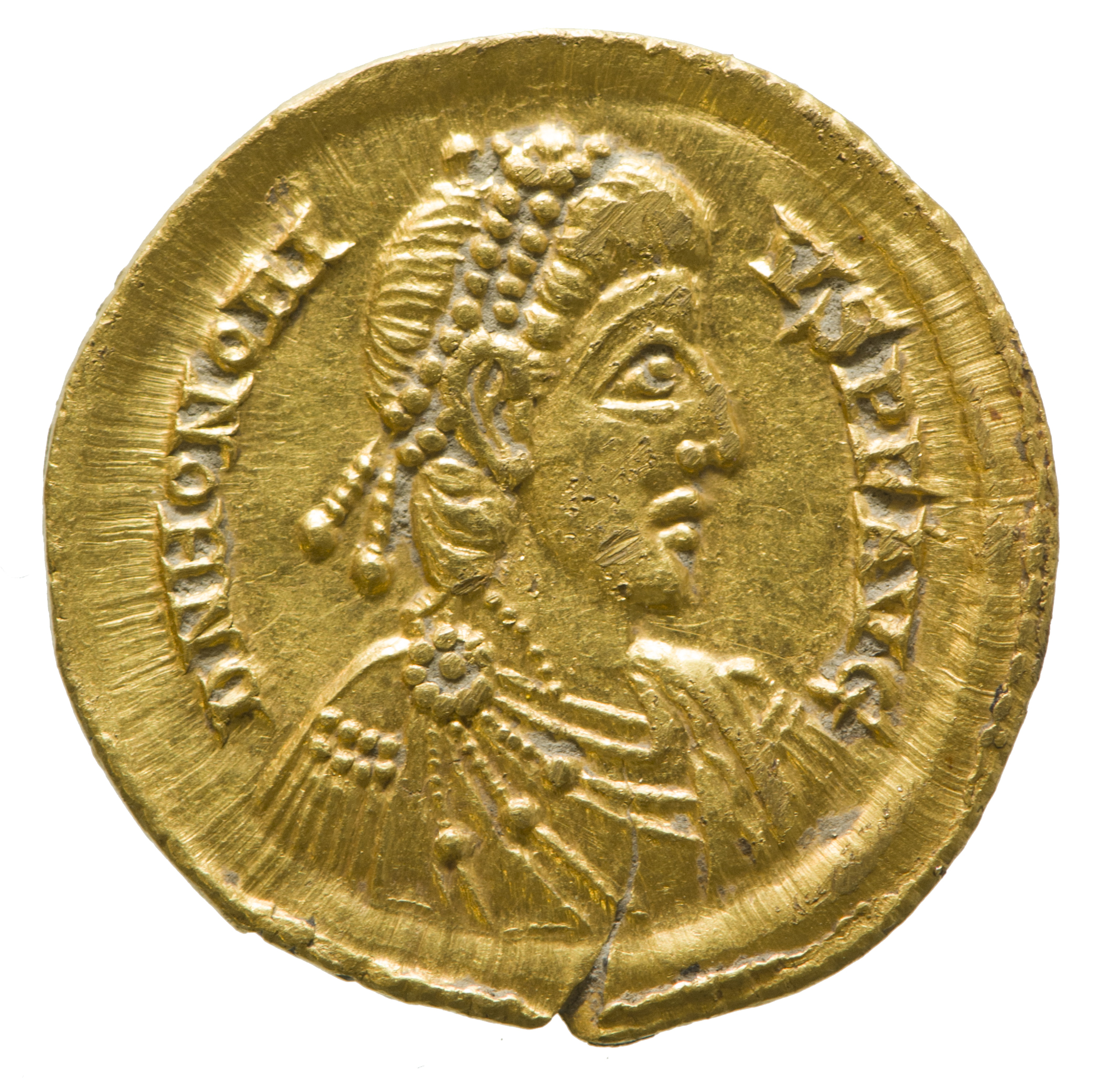 Obverse (front) of a solidus of Honorius Head right diademed, cuirassed, draped